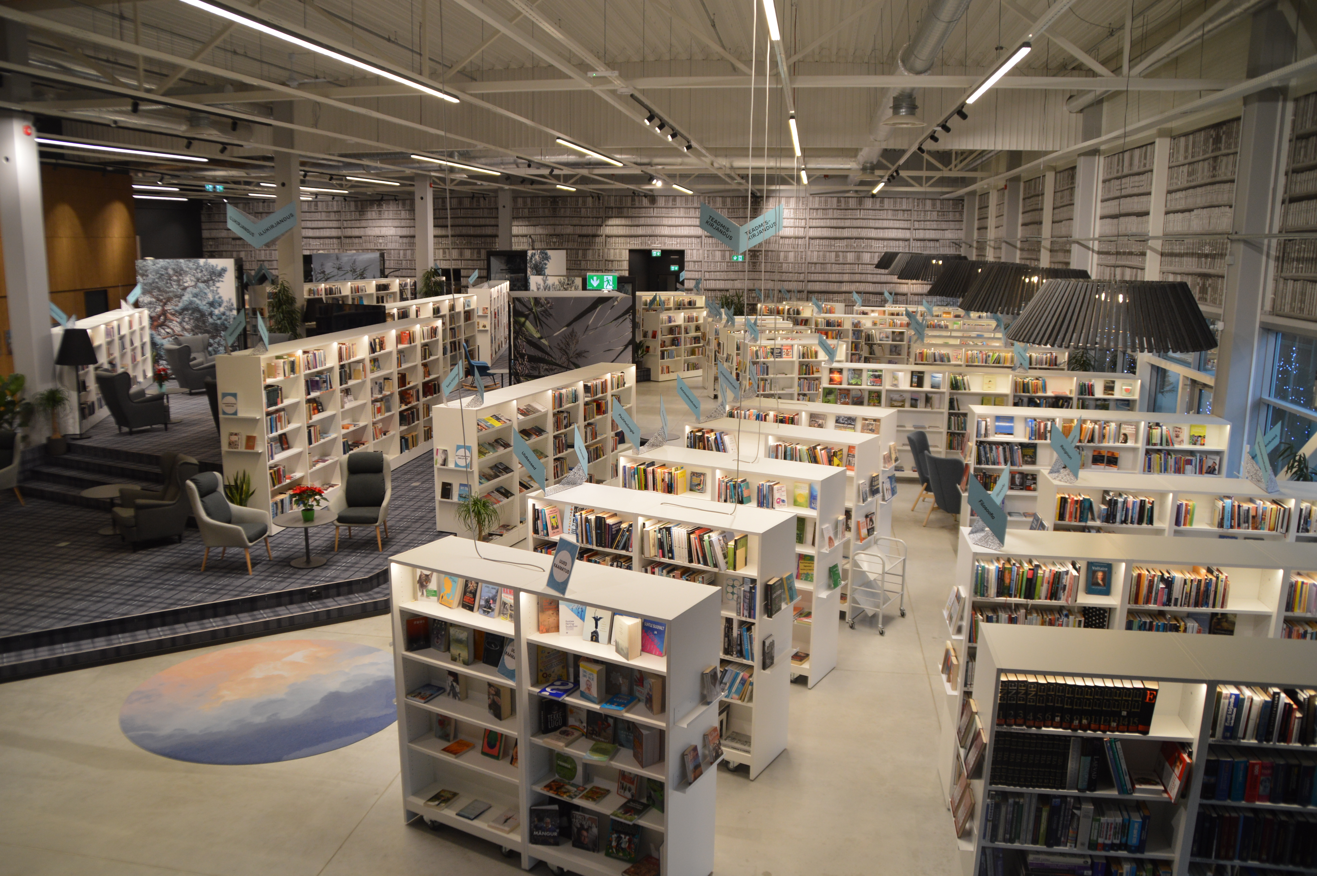 Viimsi Raamatukogu esimese korruse teenindussaal